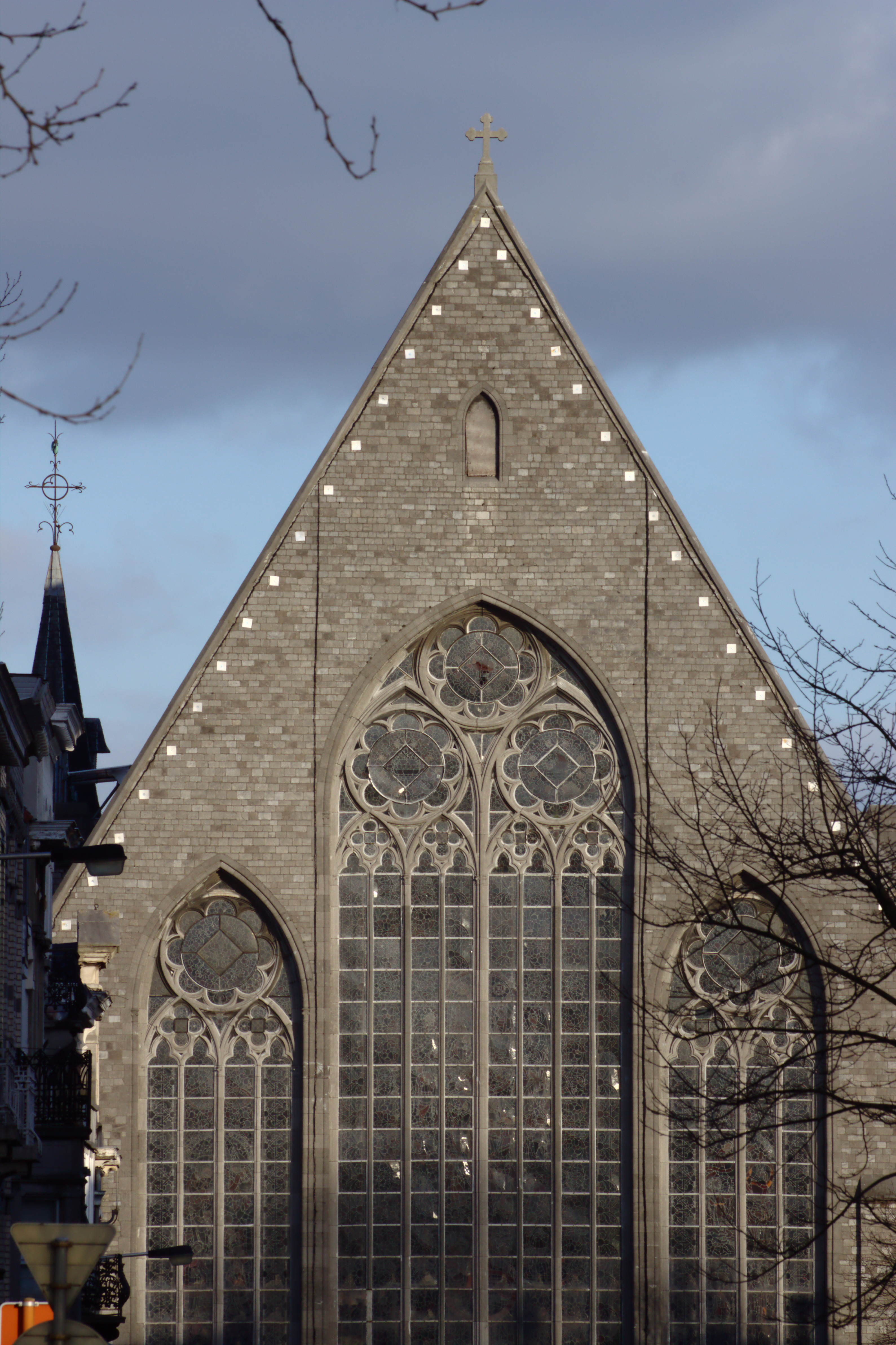 St. Henry Church in Brussels-Woluwe, Belgium